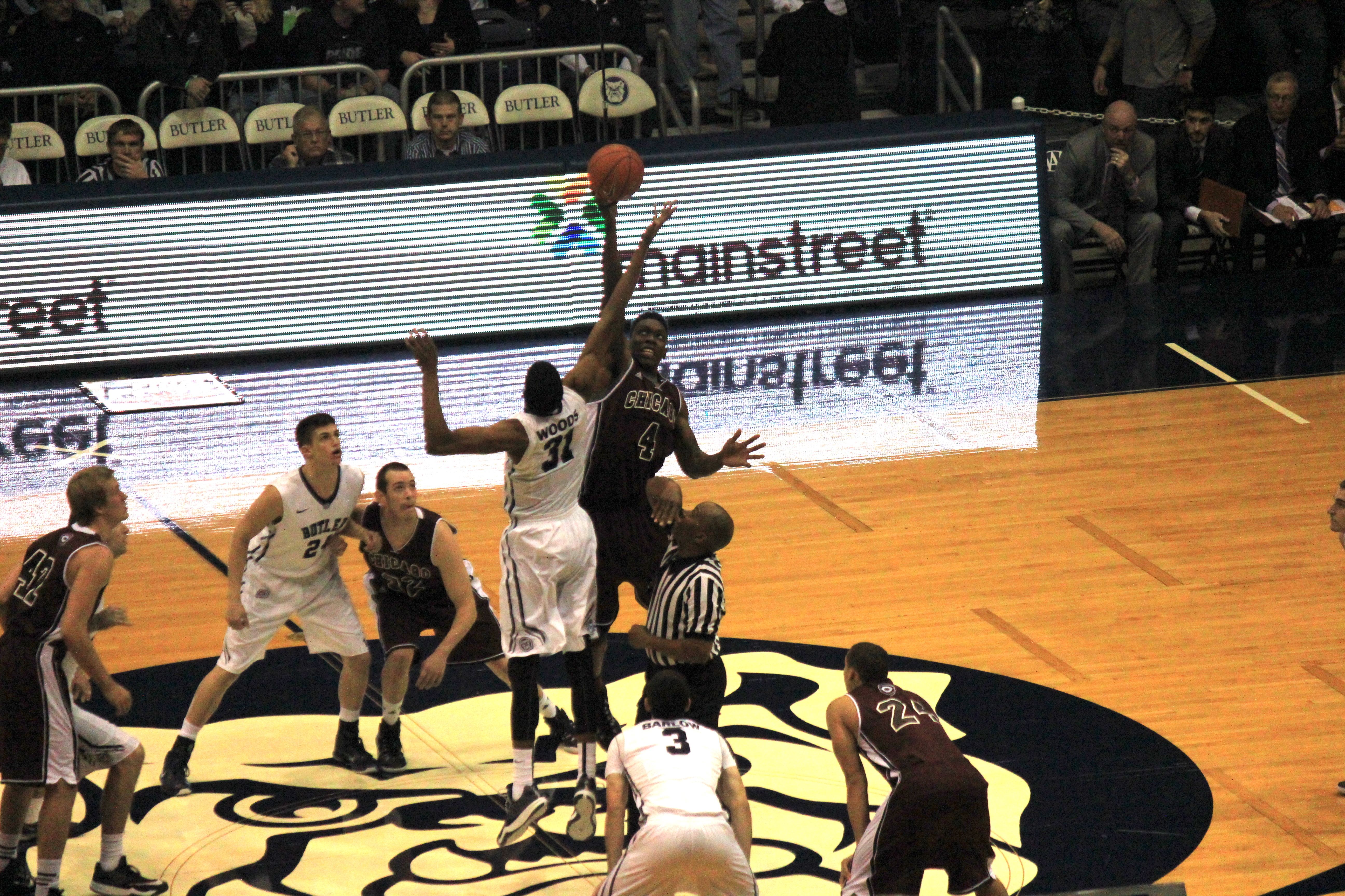 Butler opening t 2014-15